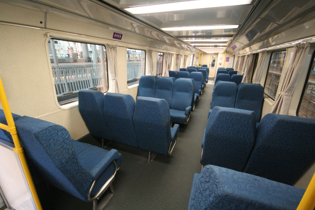 Interior of a 2007 refurbished H type carriage. V/Line, Victoria, Australia